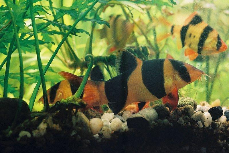 Chromobotia macracanthus syn. Botia macracanthus